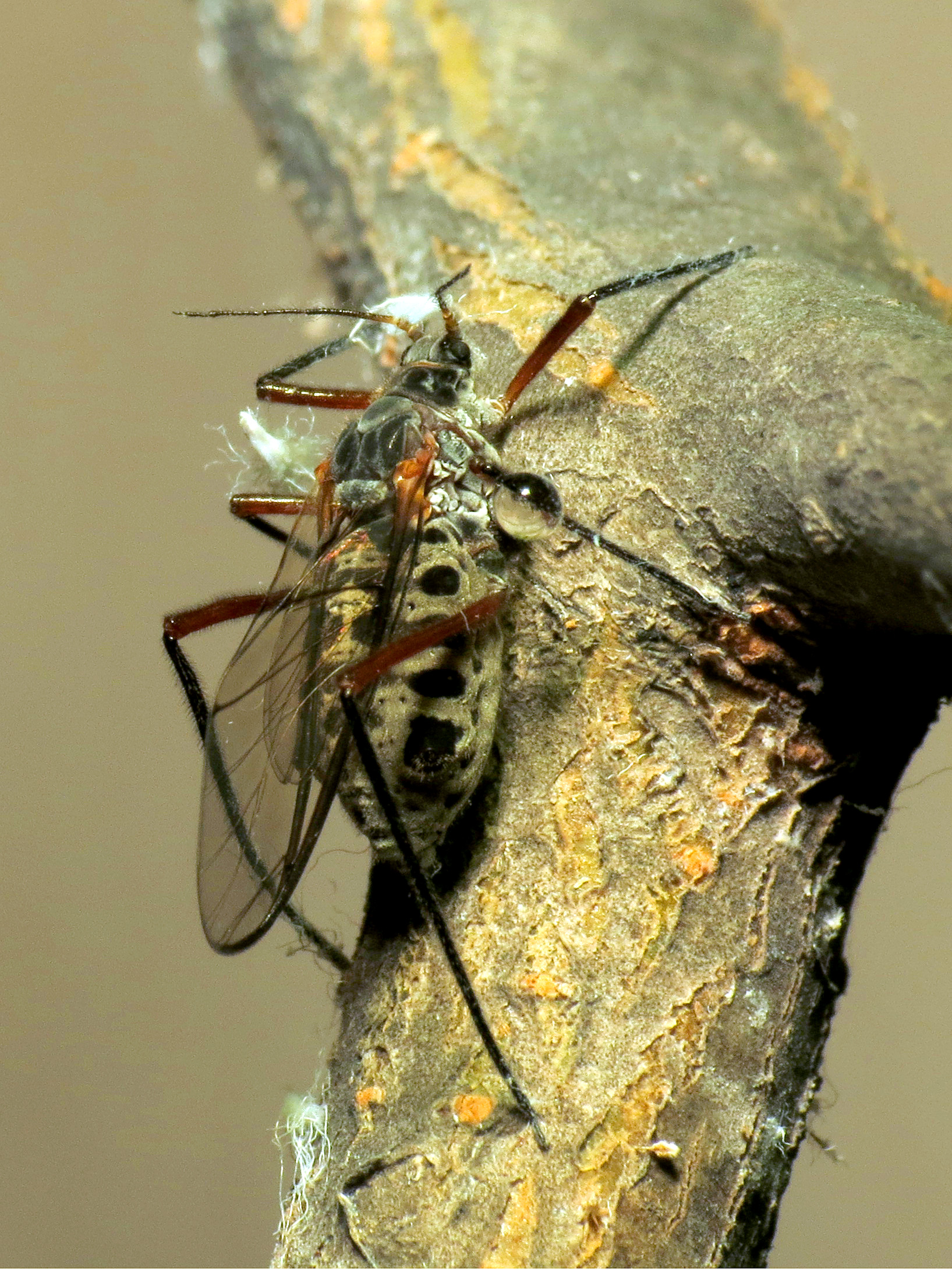 Longistigma caryae. Rock Creek Park, Washington, DC, USA